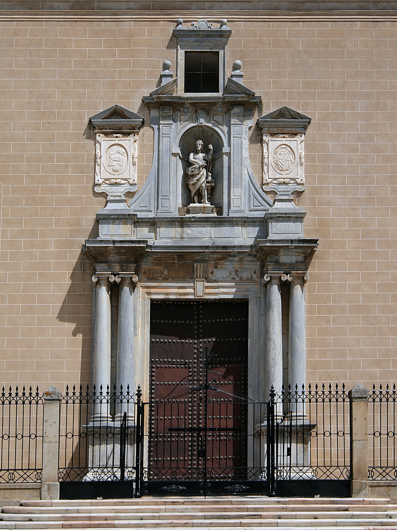 Badajoz, Catedral